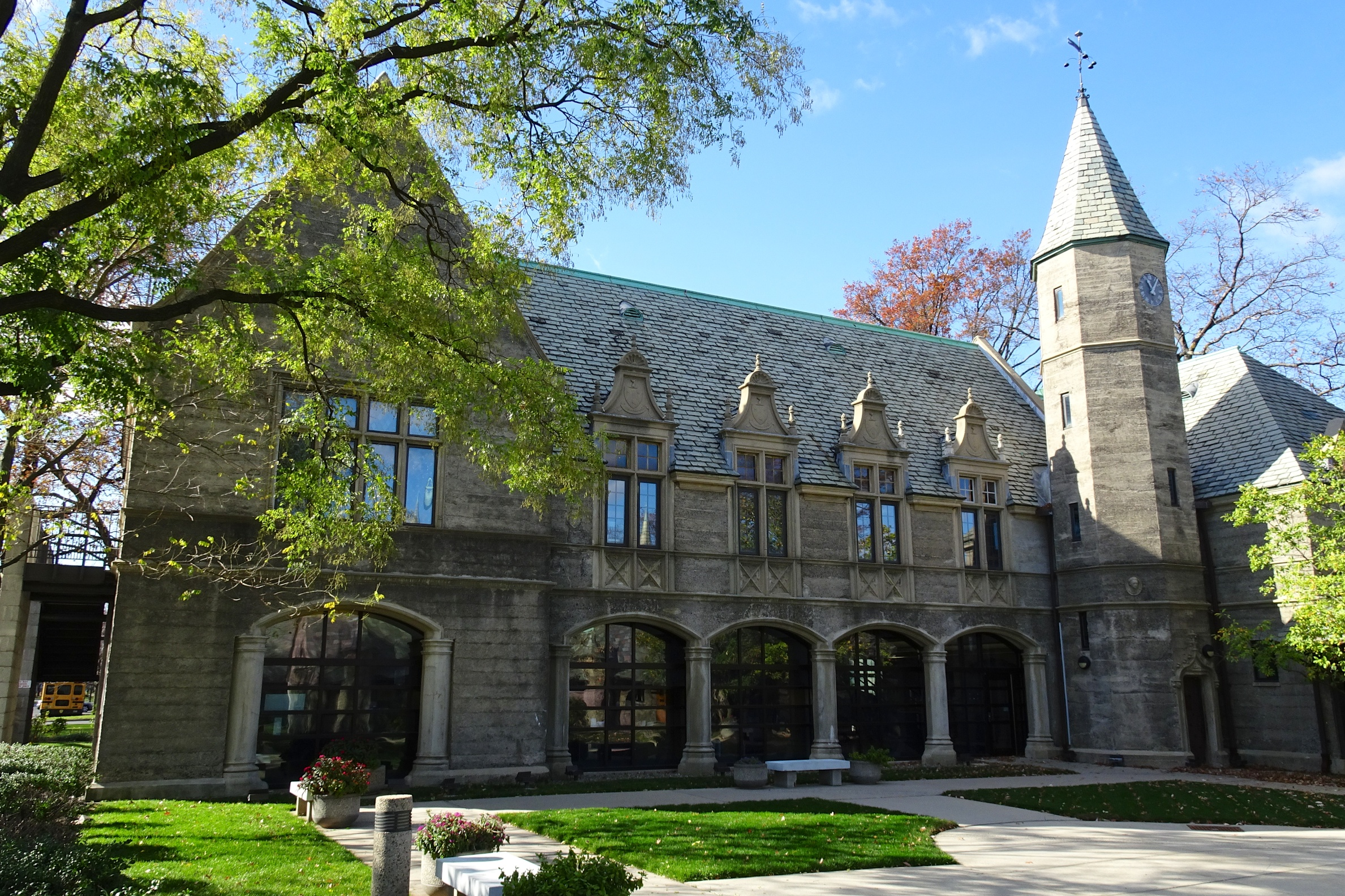 Kean Hall at Kean University.